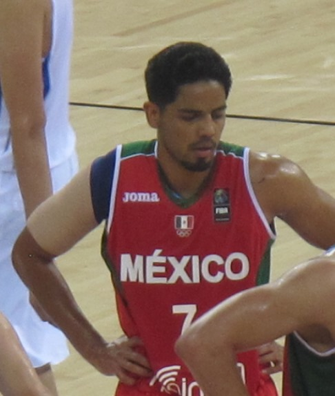 taken during 2014 Basketball World Cup